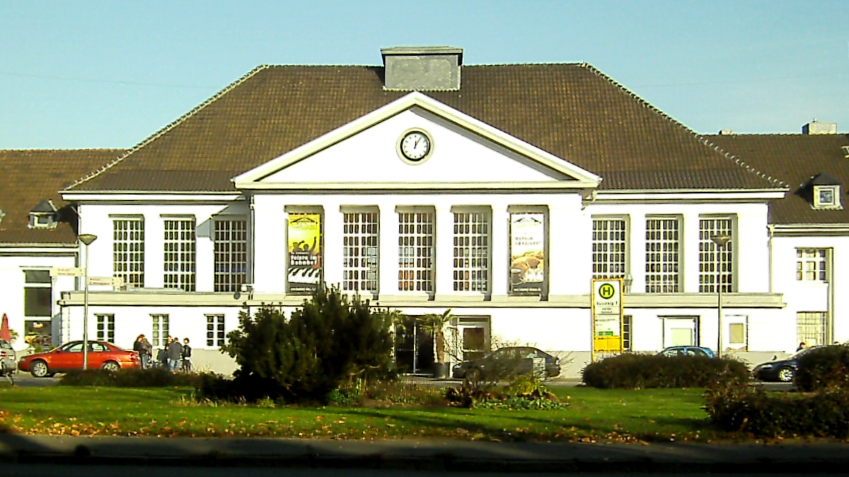 Railway station of Viersen, Germany.